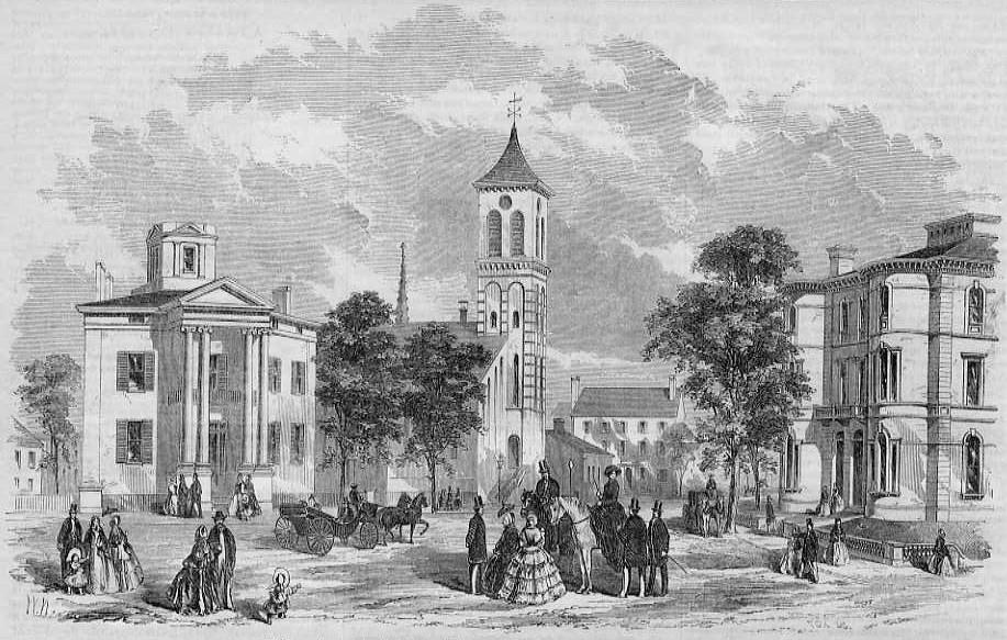 View at the Junction of Free and Congress Streets, Portland, Maine